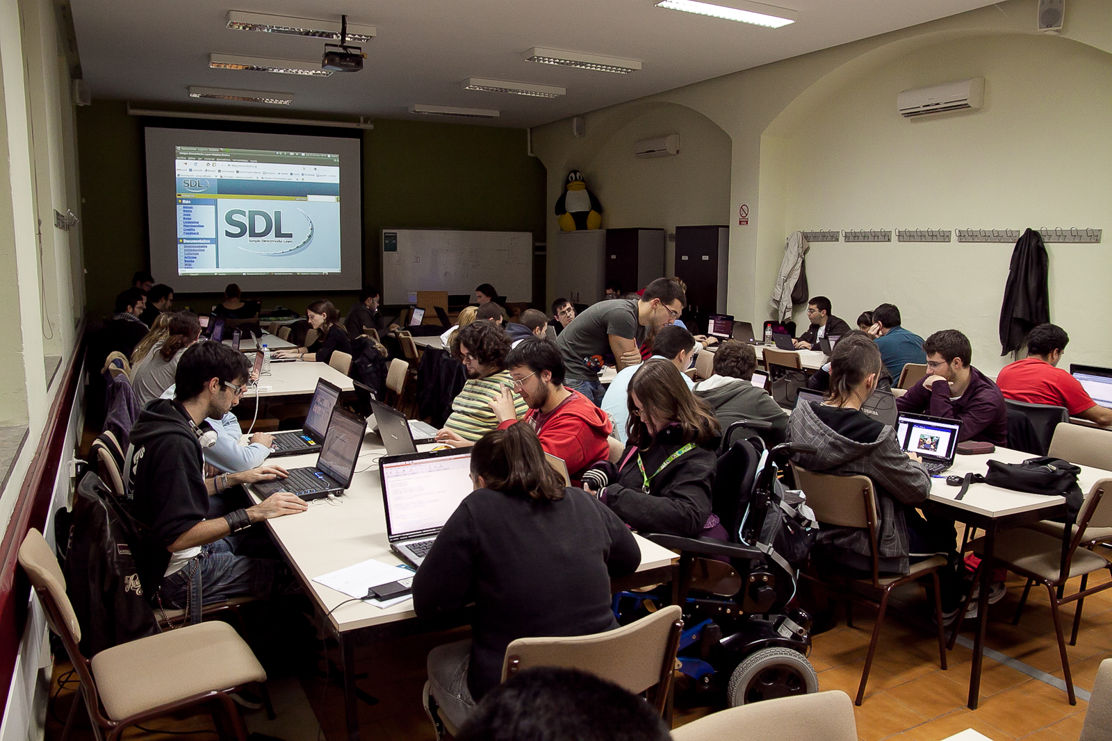 Workshop on game programming using libSDL. By ADVUCA, University of Cadiz (Spain)